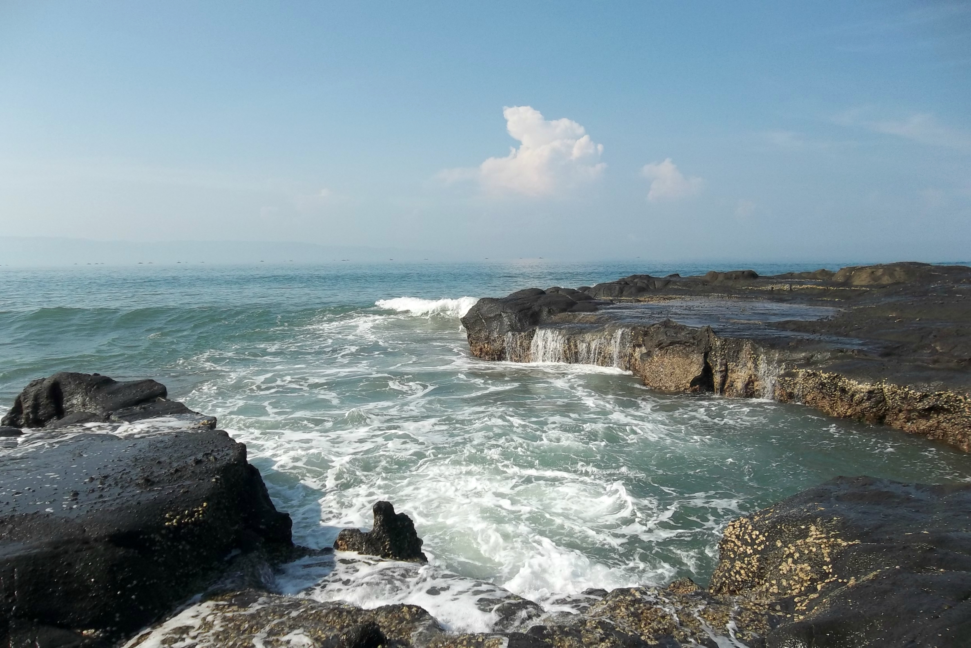 Karang Hawu Beach, Pelabuhan Ratu, Sukabumi, Jawa Barat, Indonesia.